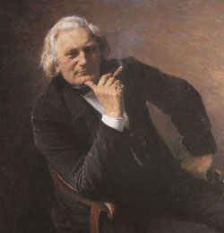 Bertha Wegmann: Portrait of Mads Christian Holm, founder of Dampskibsselskabet Norden.